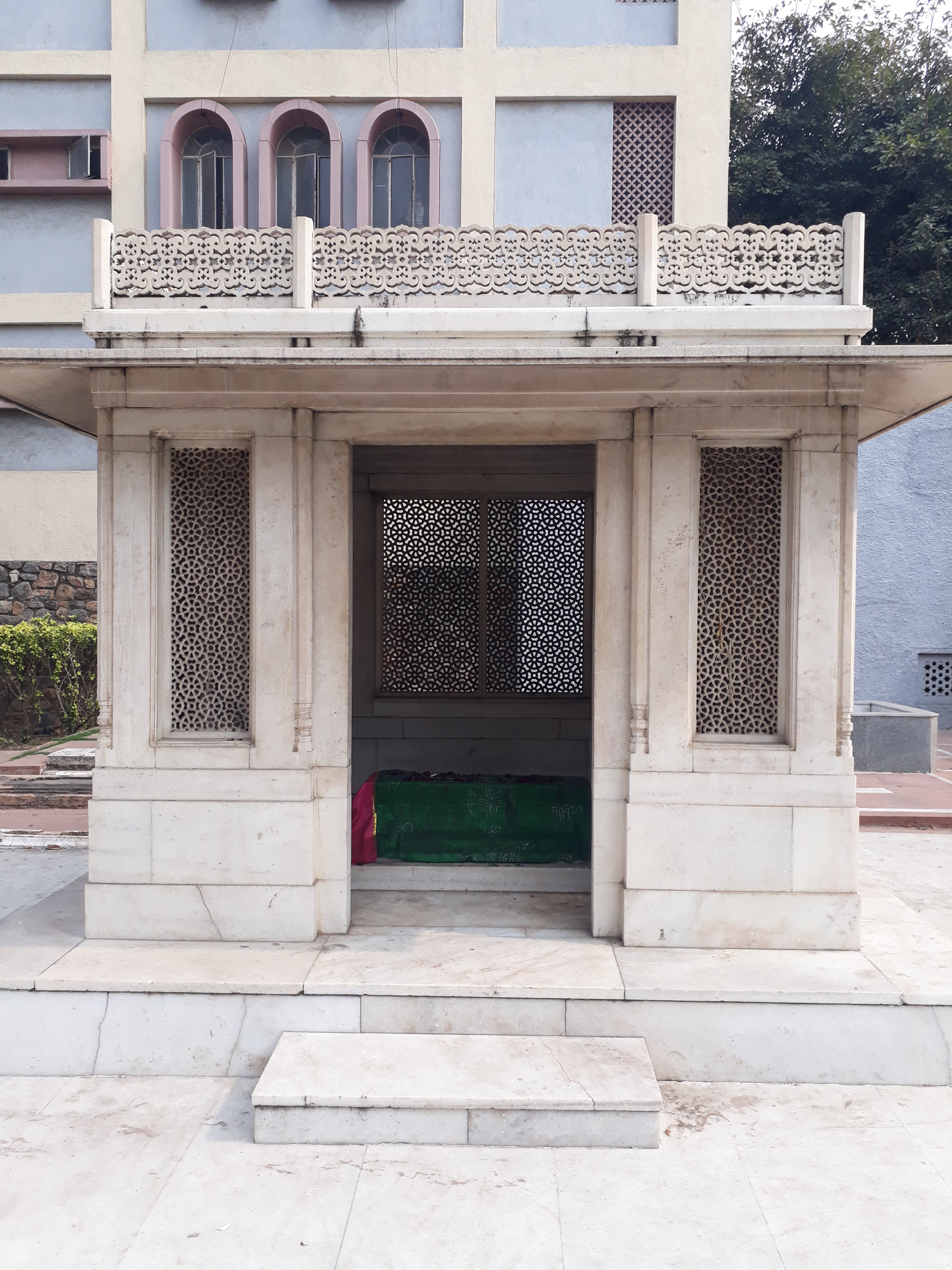 Mirza Ghalib Tomb in Nijamuddin Basti, Delhi